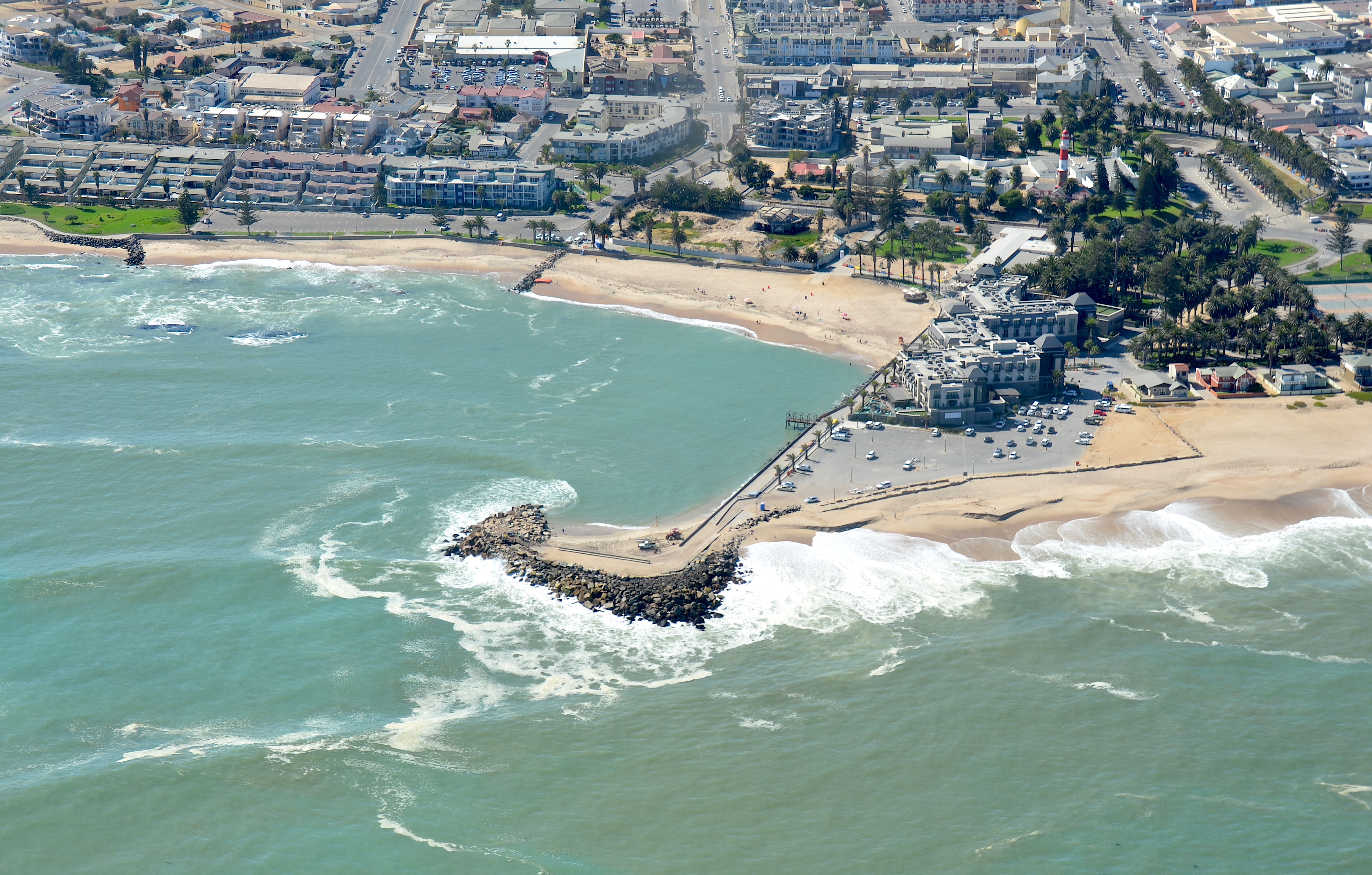 Mole Swakopmund (Namibia) from Bird´s eye view (2017)